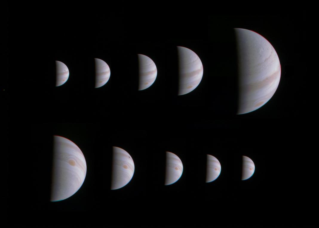 This montage of 10 JunoCam images shows Jupiter growing and shrinking in apparent size before and after NASA's Juno spacecraft made its closest approach on August 27, 2016, at 12:50 UTC. The images are spaced about 10 hours apart, one Jupiter day, so the Great Red Spot is always in roughly the same place. The small black spots visible on the planet in some of the images are shadows of the large Galilean moons. The images in the top row were taken during the inbound leg of the orbit, beginning on August 25 at 13:15 UTC when Juno was 1.4 million miles (2.3 million kilometers) away from Jupiter, and continuing to August 27 at 04:45 UTC when the spacecraft was 430,000 miles (700,000 kilometers) away. The images in the bottom row were obtained during the outbound leg of the orbit. They begin on August 28 at 00:45 UTC when Juno was 750,000 miles (920,000 kilometers) away and continue to August 29 at 16:45 UTC when the spacecraft was 1.6 million miles (2.5 million kilometers) away. NASA's Jet Propulsion Laboratory, Pasadena, California, manages the Juno mission for the principal investigator, Scott Bolton, of Southwest Research Institute in San Antonio. The Juno mission is part of the New Frontiers Program managed at NASA's Marshall Space Flight Center in Huntsville, Alabama. Lockheed Martin Space Systems, Denver, built the spacecraft. JPL is a division of Caltech in Pasadena. More information about Juno is online at and